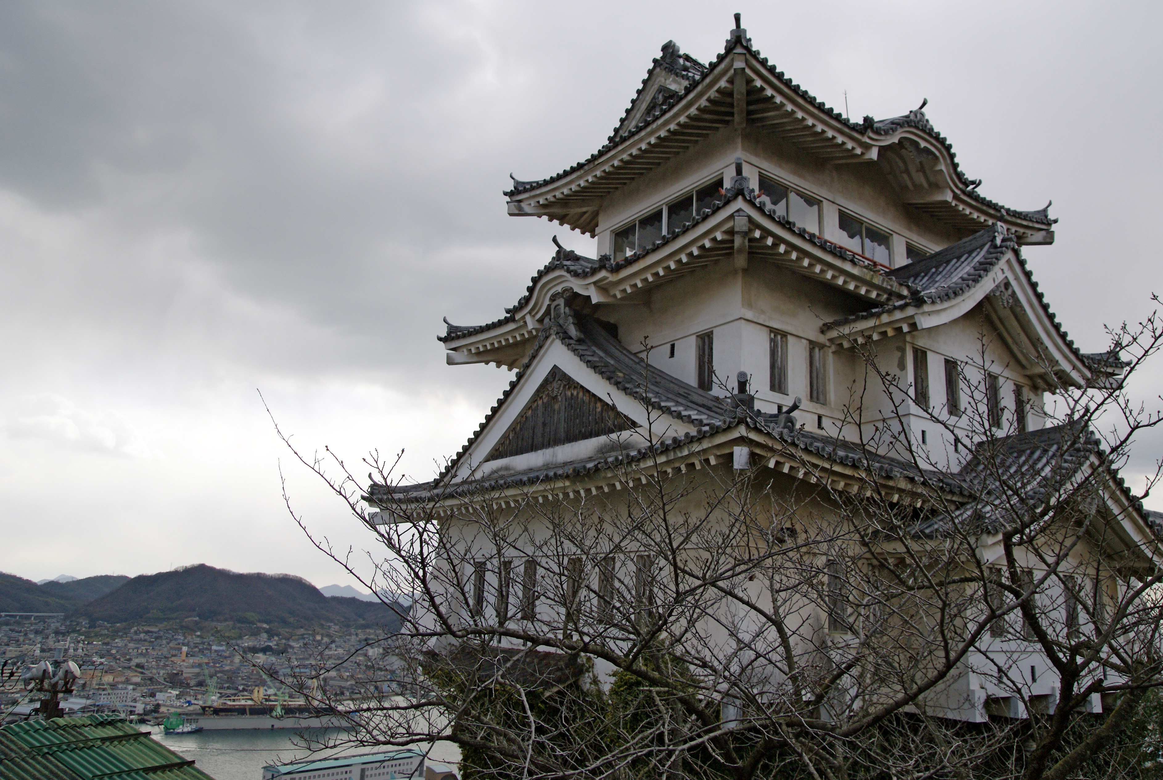 Onomichi Castle in Onomichi, Hiroshima prefecture, Japan